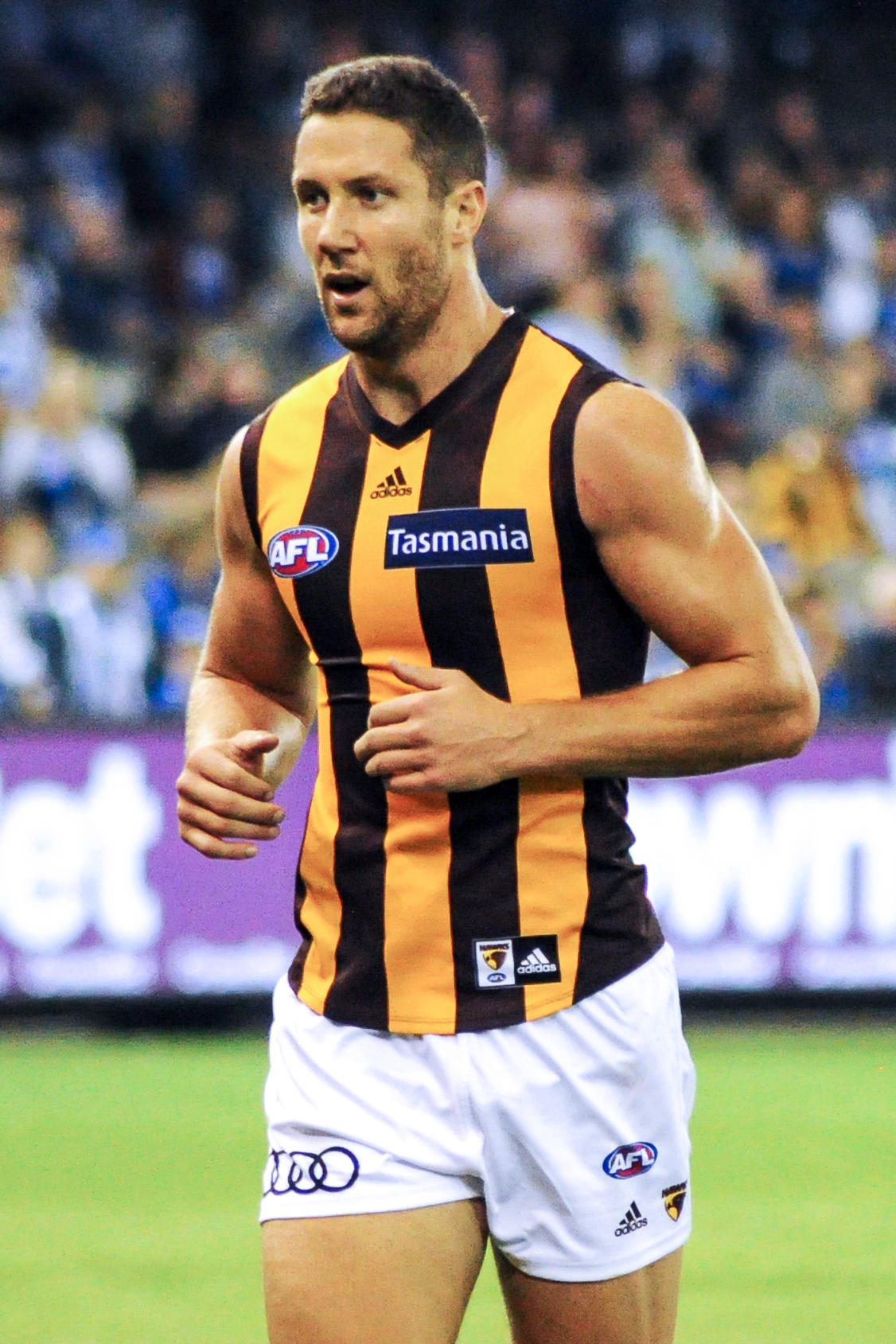 James Frawley during the AFL round five match between North Melbourne and Hawthorn on Sunday, 22 April 2018 at Etihad Stadium in Melbourne, Victoria.